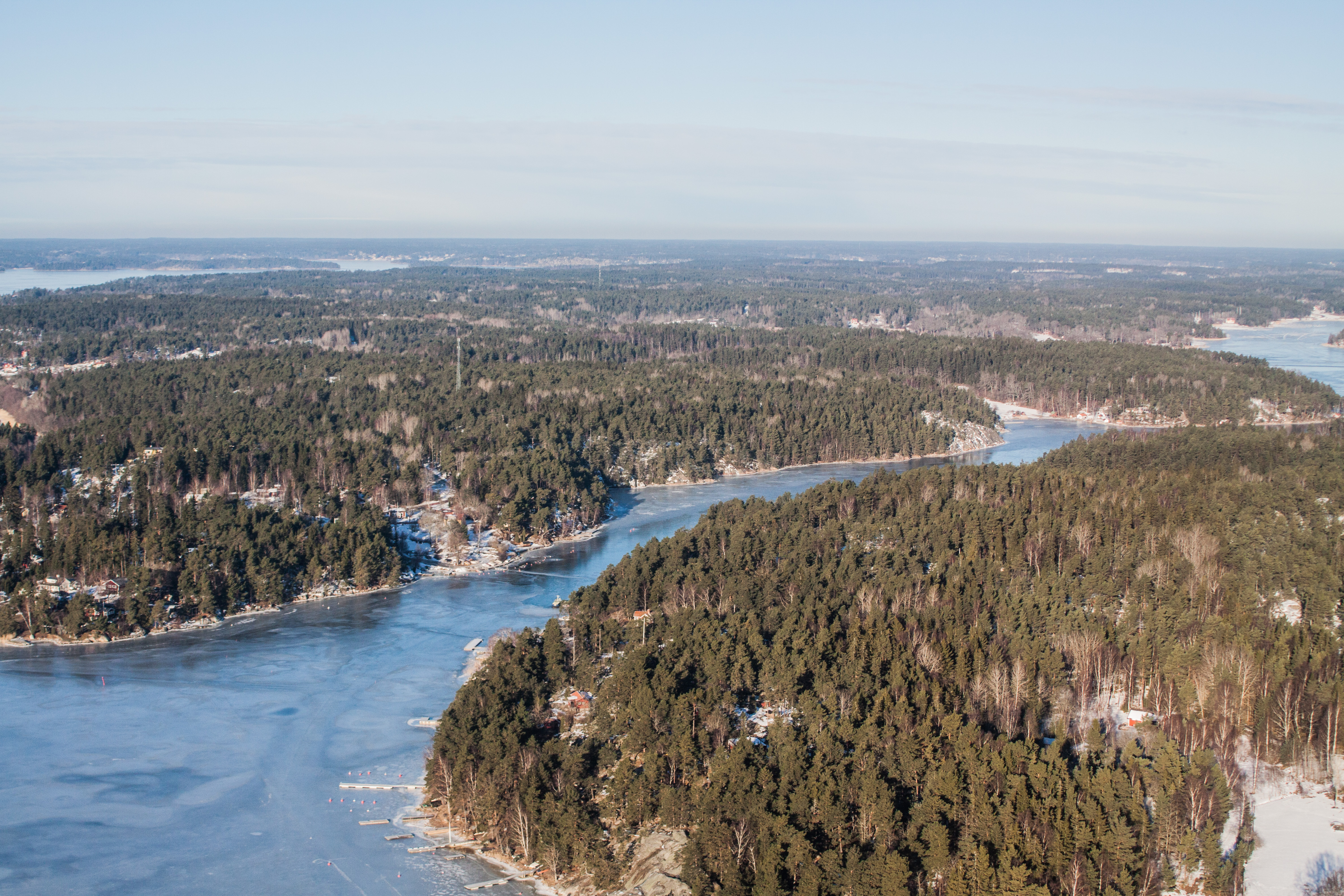 The Staveström waterway between the southern end of the island of Ljusterö, to the left, and the island of Örsö, to the right. Aerial images over Stockholm's Archipelago arranged by Wikimedia.